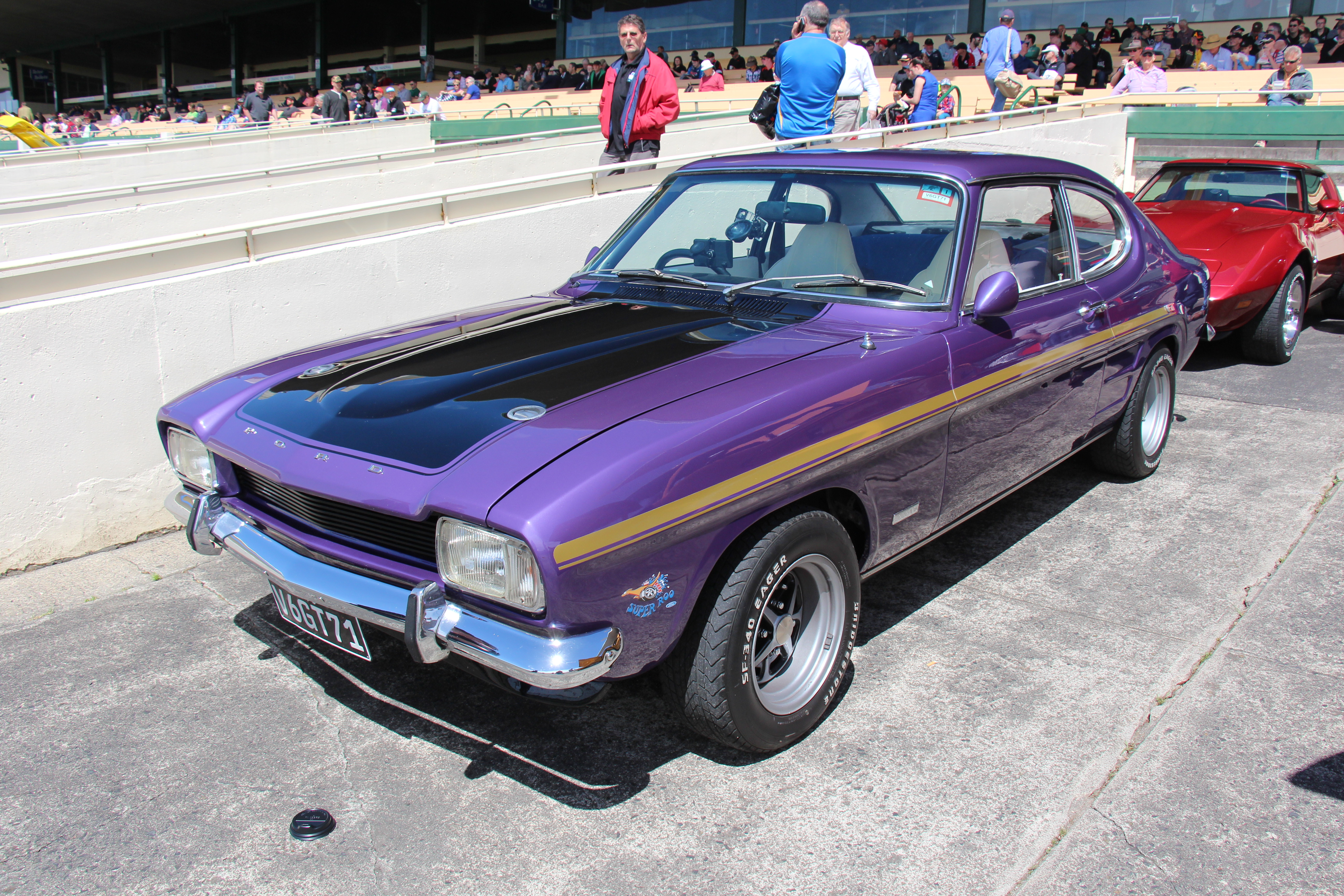 Cool Violet. While Ford America called the Mustang its Pony car, Ford of Englands Pony car was the Capri, (also built in Germany) but no V8 of course, it got the engine from the Cortina. This, the MkI was built from 1969-74 (facelift in 1970) It was available with V4 engines in Germany and the 2300GT In the UK it was the 1.3 and 1.6 4 cyl Kent or the 3000 V6 In 1970 the 2000 Pinto engine was used and the race ready RS2600 was available. 1971 saw a facelift and the RS2600 replaced with the RS3100. The Mk I (pre facelift) was also produced in Australia from 1969-72 in 1600 Deluxe, the 1600GT, (later called the XL) when the 1970 3000 V6 GT was introduced. The Aussie GTs got the Black bonnet, stripes and Superoo decals like the larger Falcon GTs